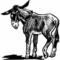 a black and white drawing of a donkey